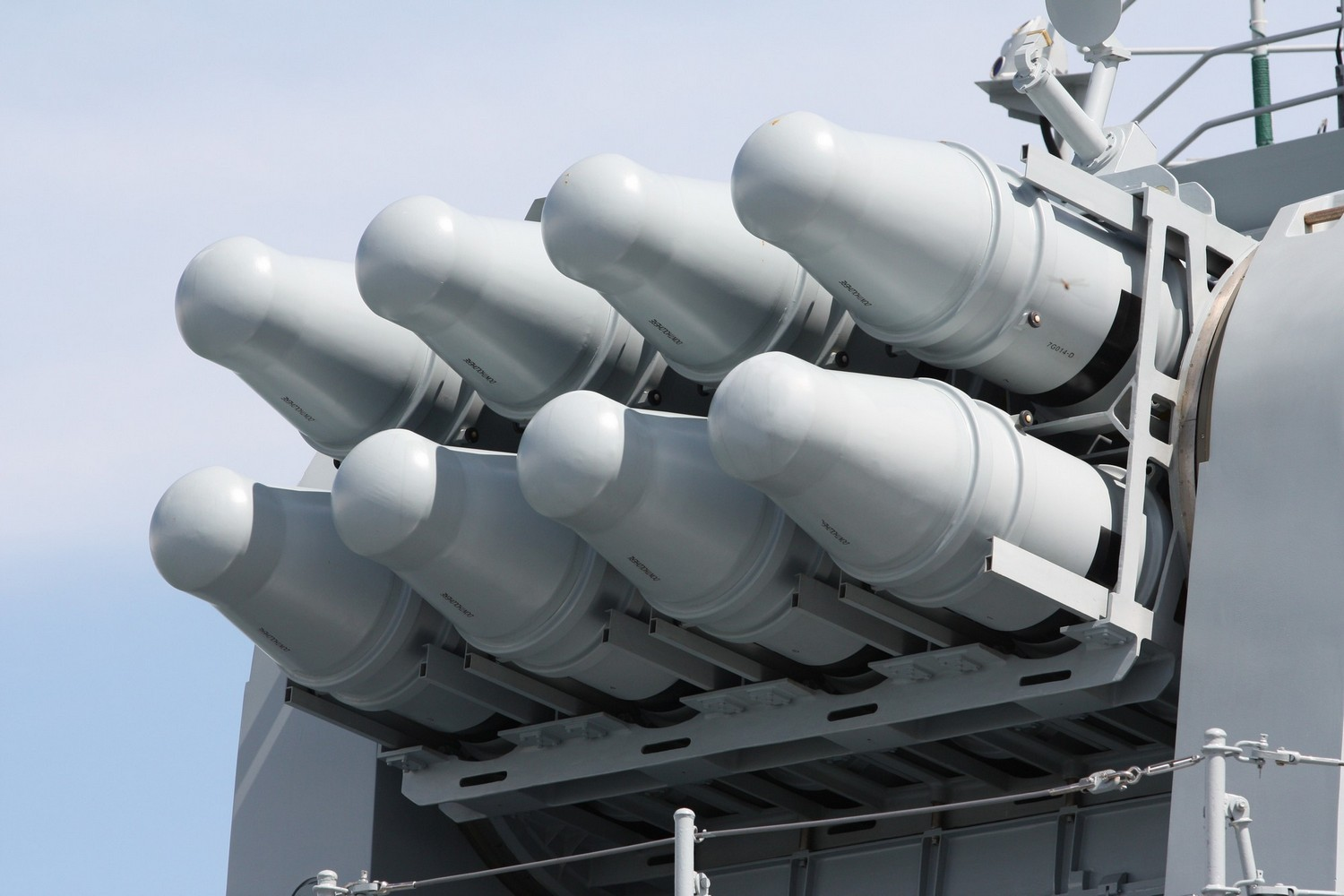 The FM-90 surface-to-air missile (SAM) system installed on the F-22P class frigate PNS Zulfiquar. Picture taken during the ship's visit to port Klang in Malaysia.